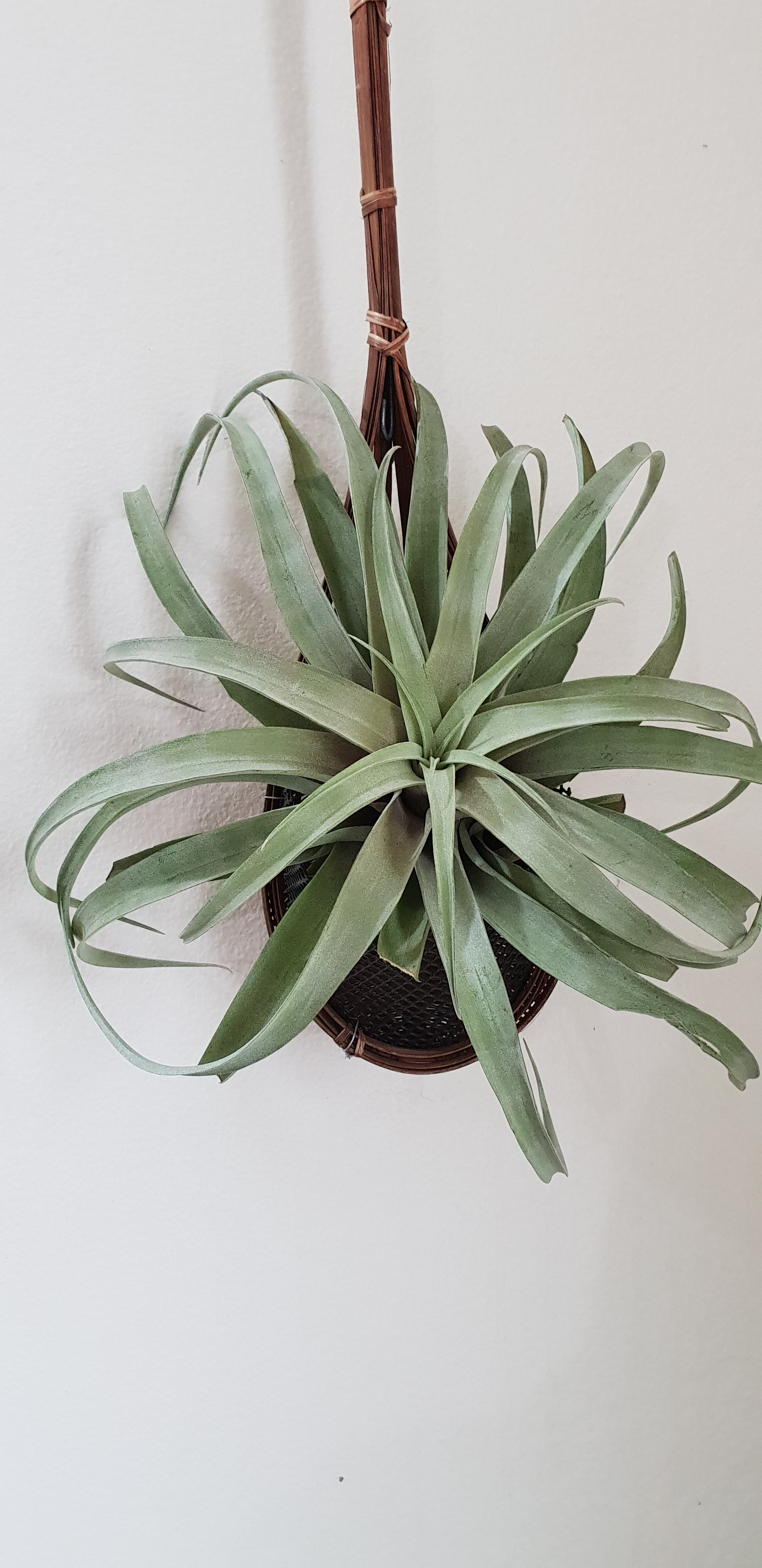 Tillandsia ionantha, the sky plant, is a species in the genus Tillandsia. This species is native to Central America and Mexico. It is also reportedly naturalized in Broward County, Florida.